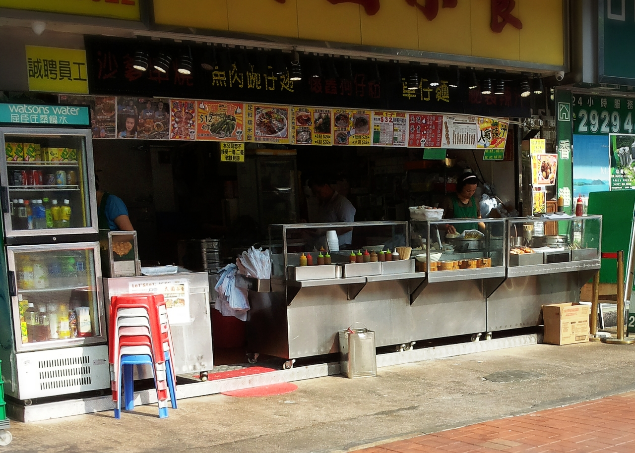 A street food store in Taiwai.